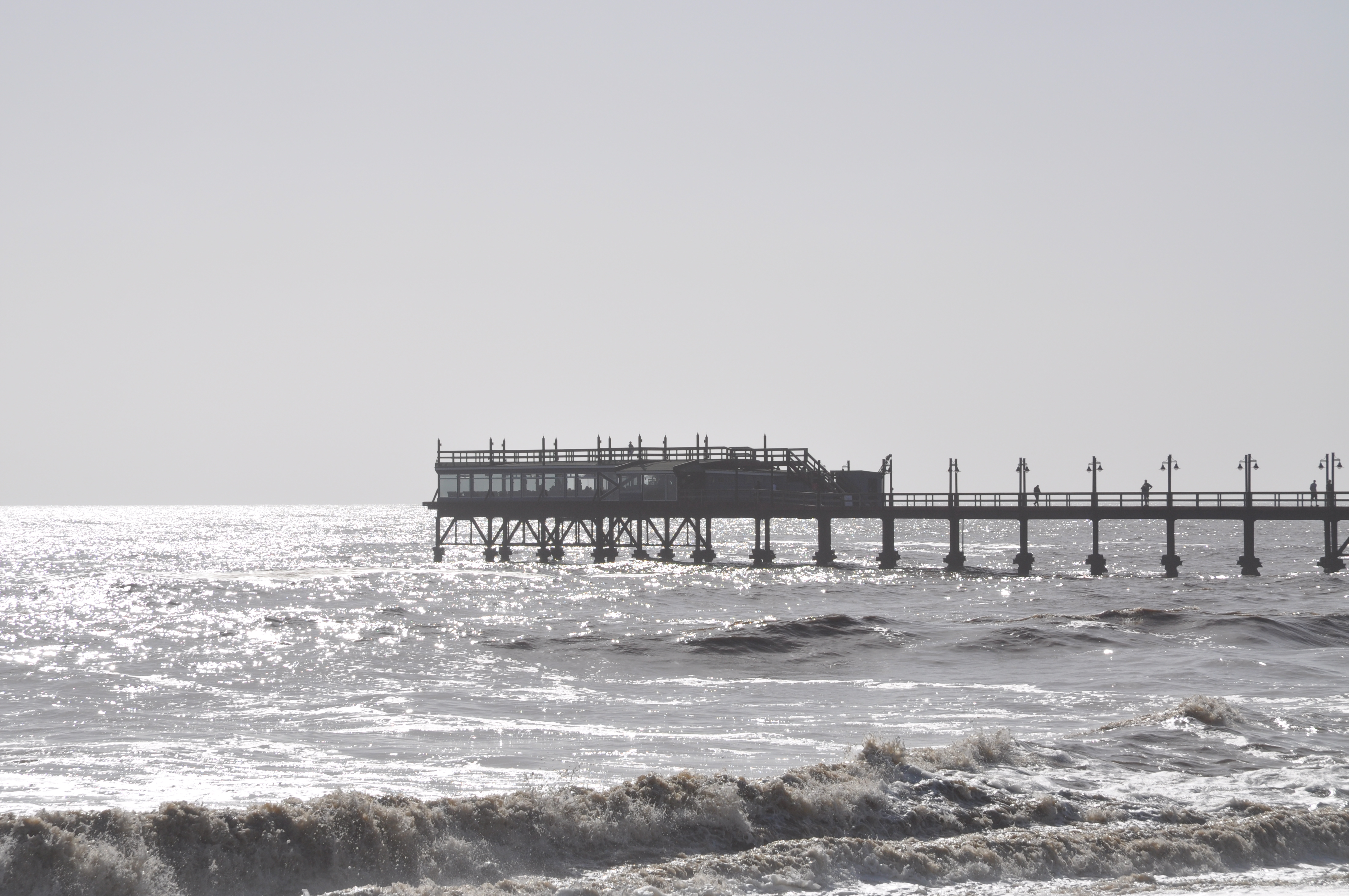 Swakopmund Jetty, Namibia